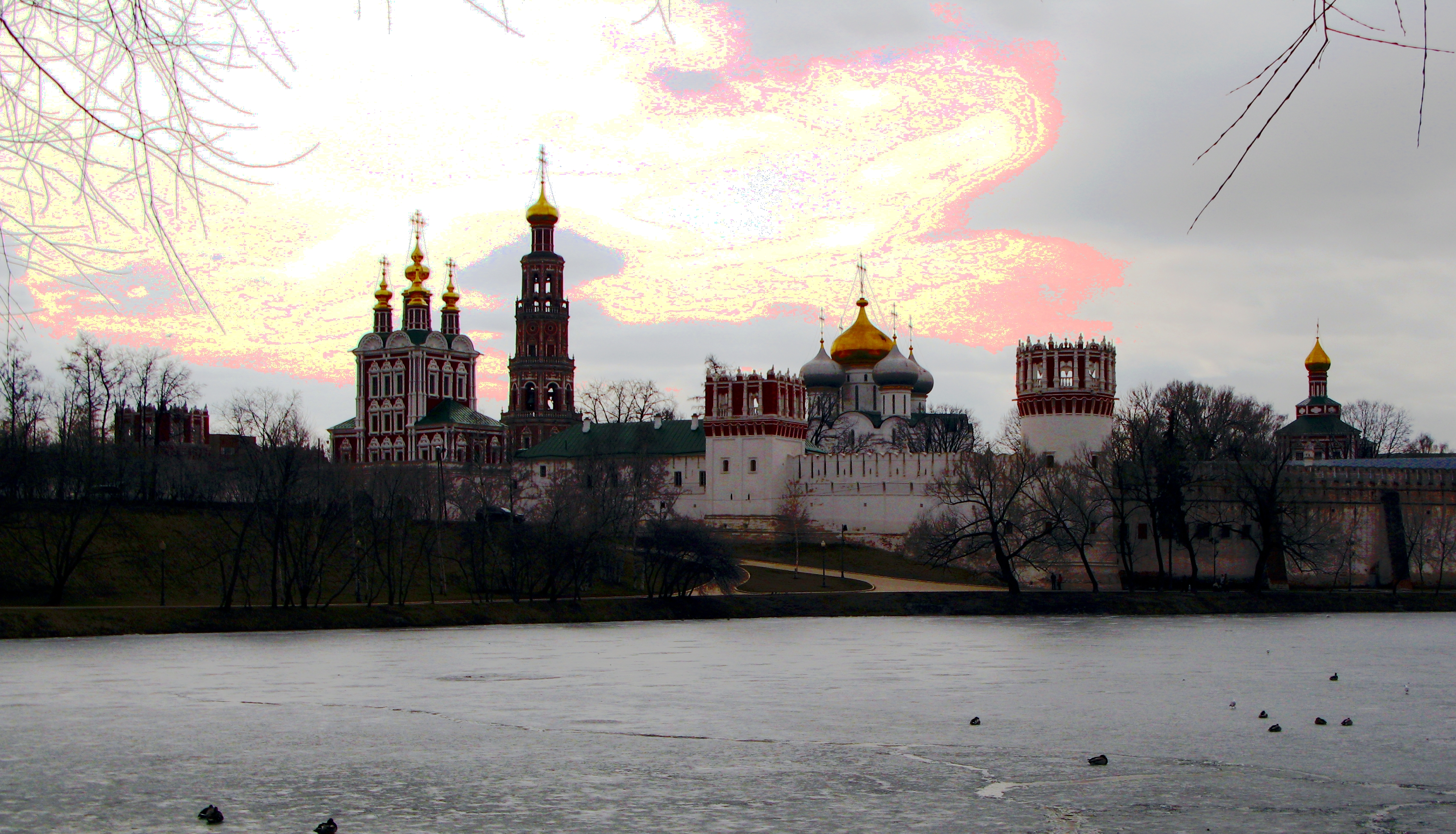 Novodevichy Convent, Moscow